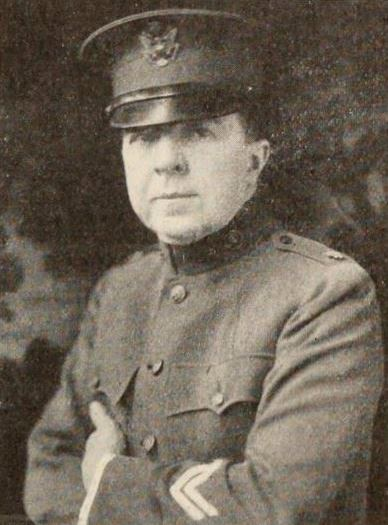 Major Rupert Hughes, on page 37 of the June 21, 1919 Exhibitors Herald.